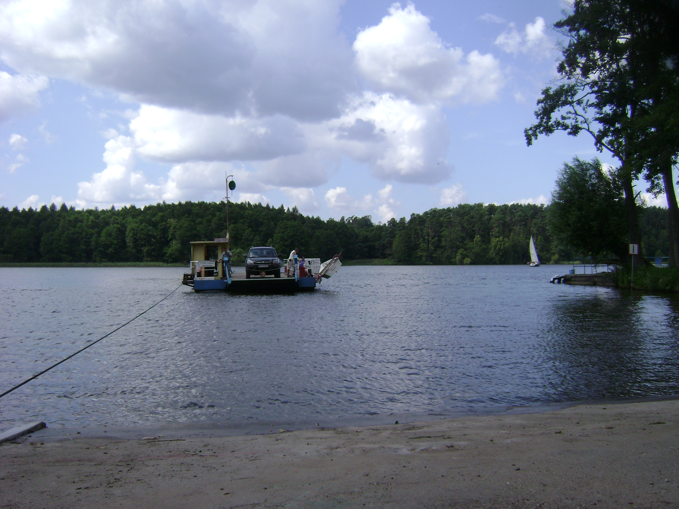 Poland. Gmina Ruciane-Nida. Wierzba Village